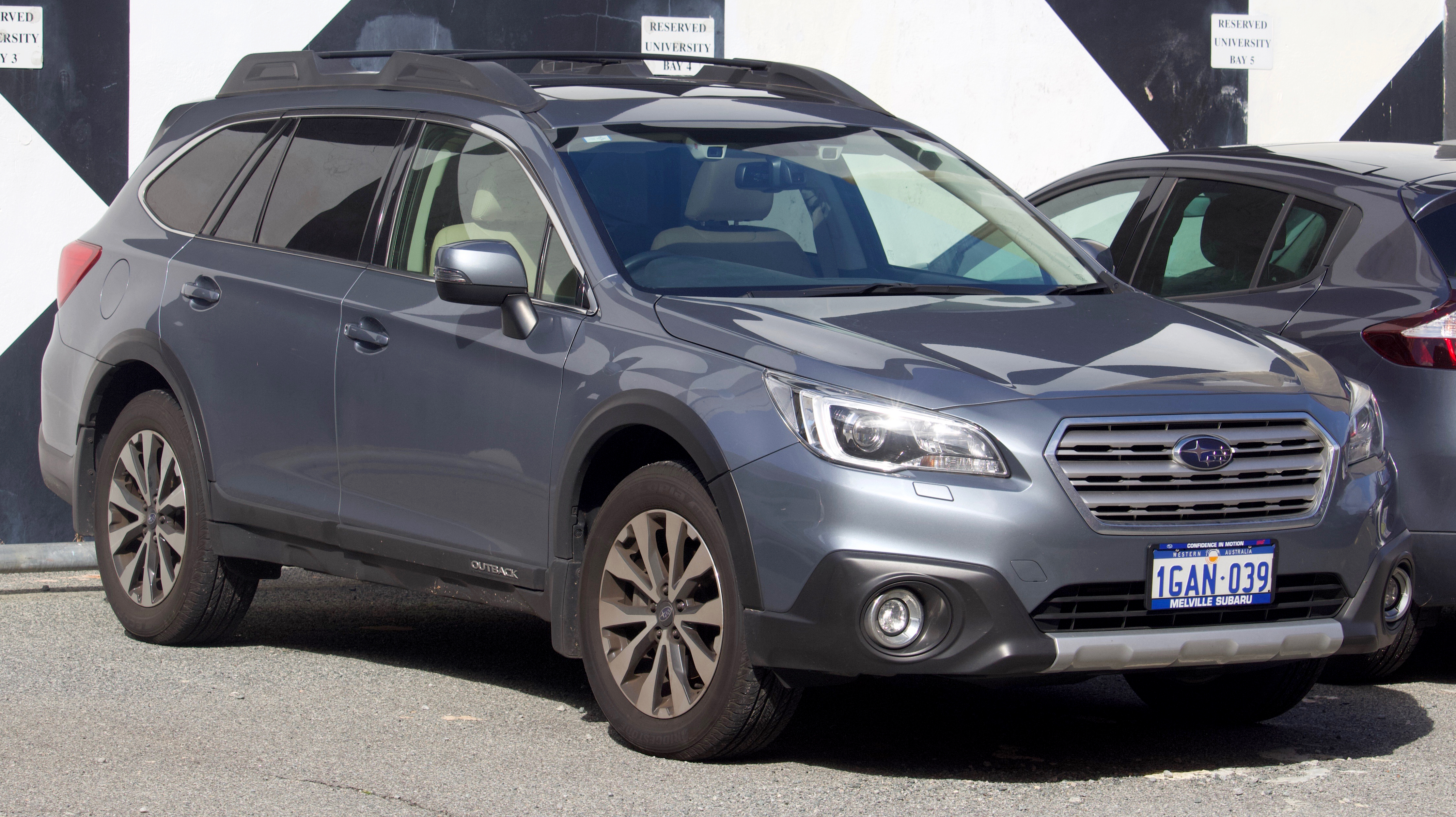 2016 Subaru Outback (BS9) 2.5i Premium station wagon. Photographed in Fremantle, Western Australia, Australia.